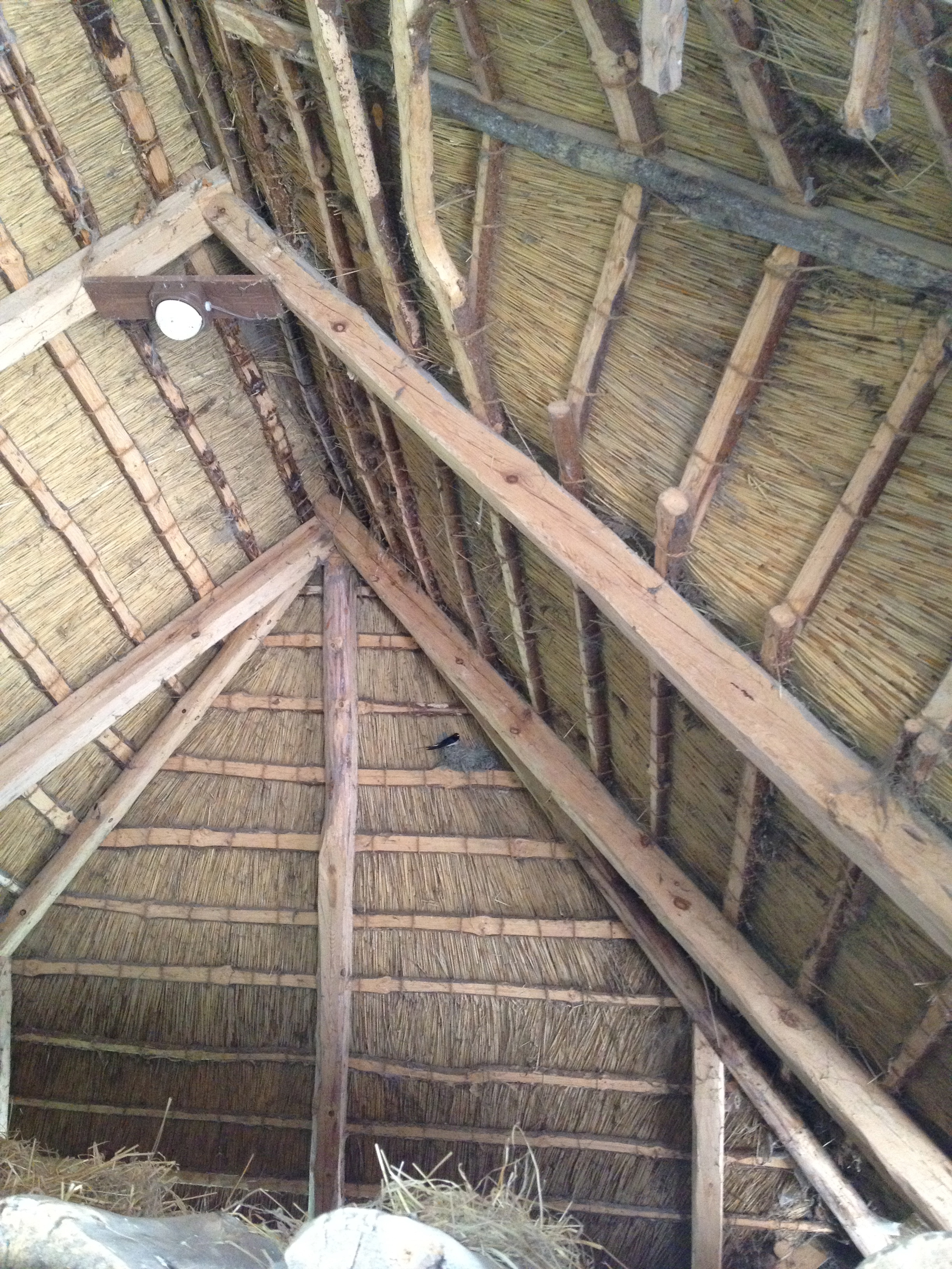 Details from the mill from Ellested Parish, Fyn, at the Open-Air Museum.